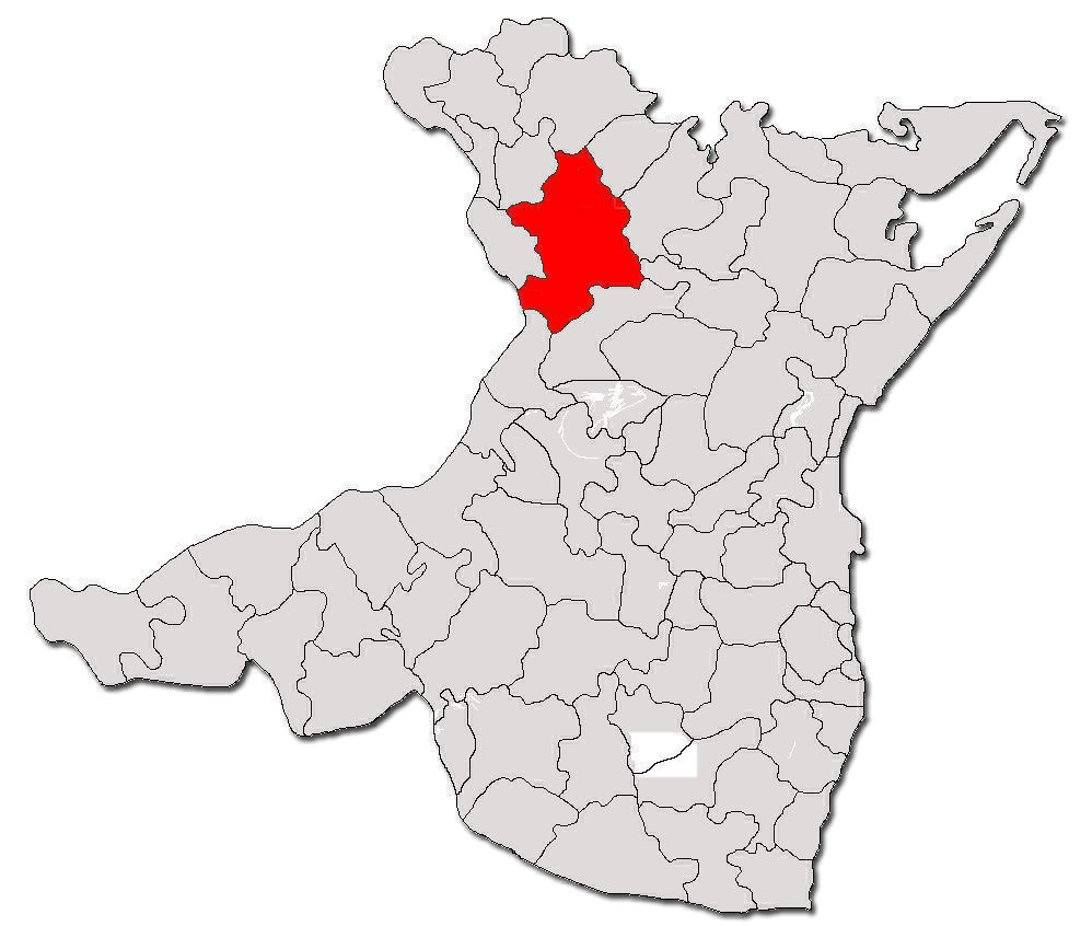 Contour map of commune Crucea